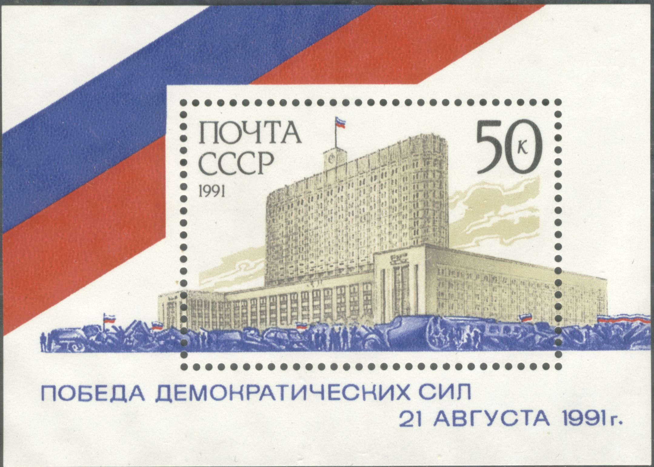 A USSR stamp, "Victory of Democracy August 21st 1991"